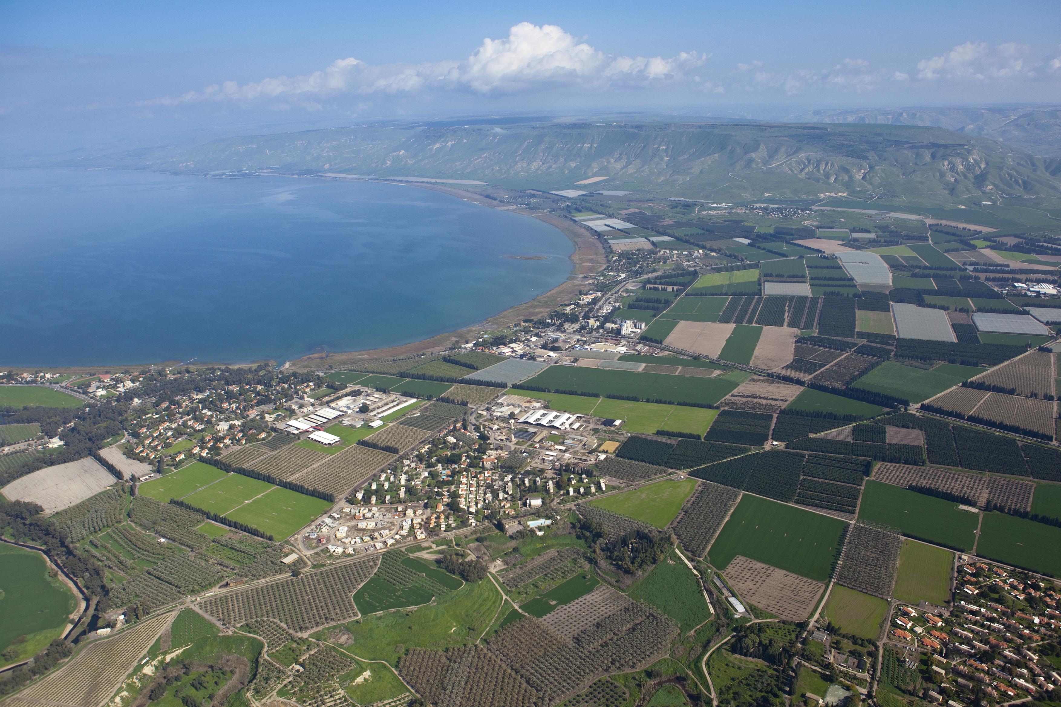 an aerial view of the southern part of the Sea of Galilee, known also by the name Lake of Kinnereth. Photo taken byI Itamar Grinberg for the Israeli Ministry of Tourism. Credit attribution requested Galilee